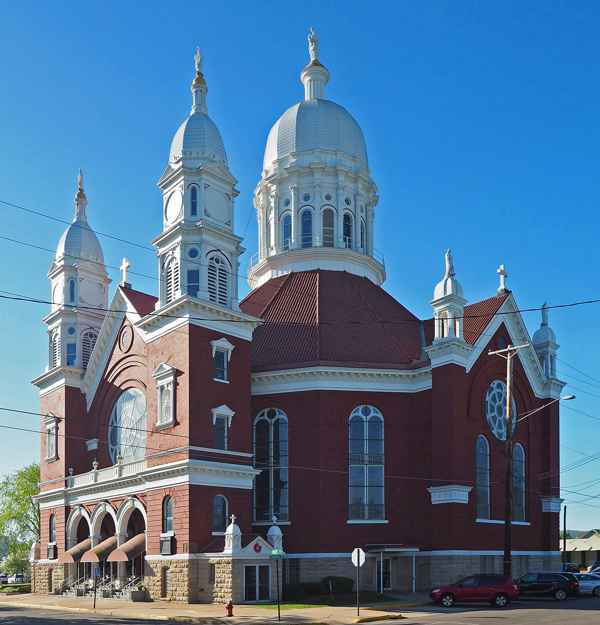 Basilica of St Stanislaus Kostka, 624 E 4th St, Winona, Minnesota, USA. Viewed from the northwest.